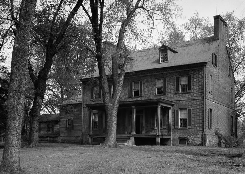 Concord: Historic American Buildings Survey John O. Brostrup, Photographer April 27, 1936 9:10 A.M. VIEW FROM SOUTHEAST (front) HABS MD,17-SEPL.V,1-1